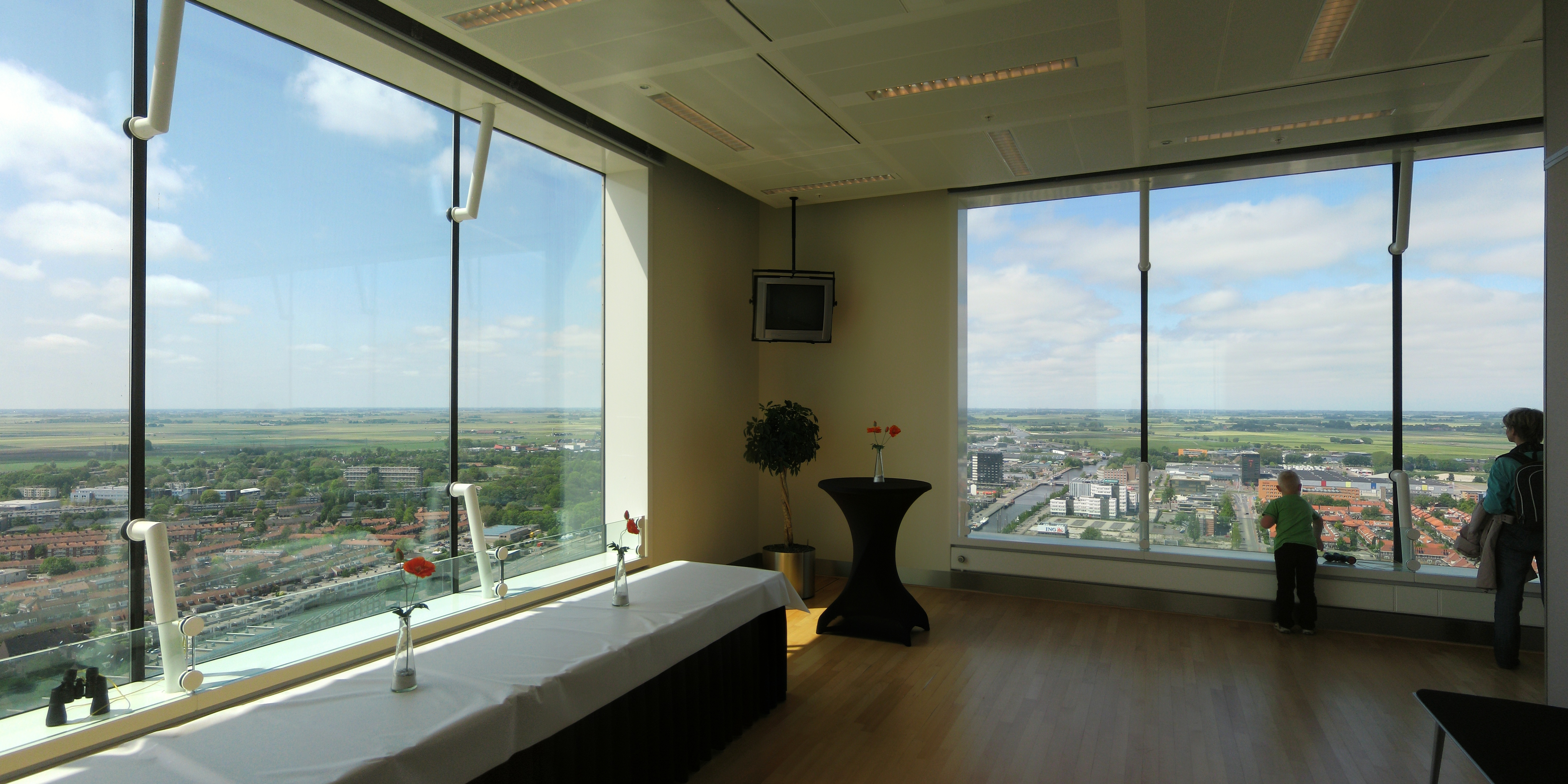 Observation room on the 26th floor of the Achmea Tower in Leeuwarden, the capital of the Dutch province of Fryslân (1999-2001, Bonnema Architecten).